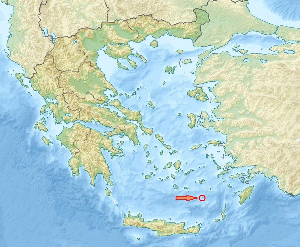 Location for Zaphoras island in Aegean sea